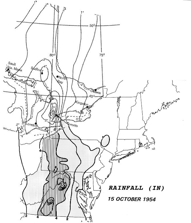 Accumulations of rain with Hurricane hazel.